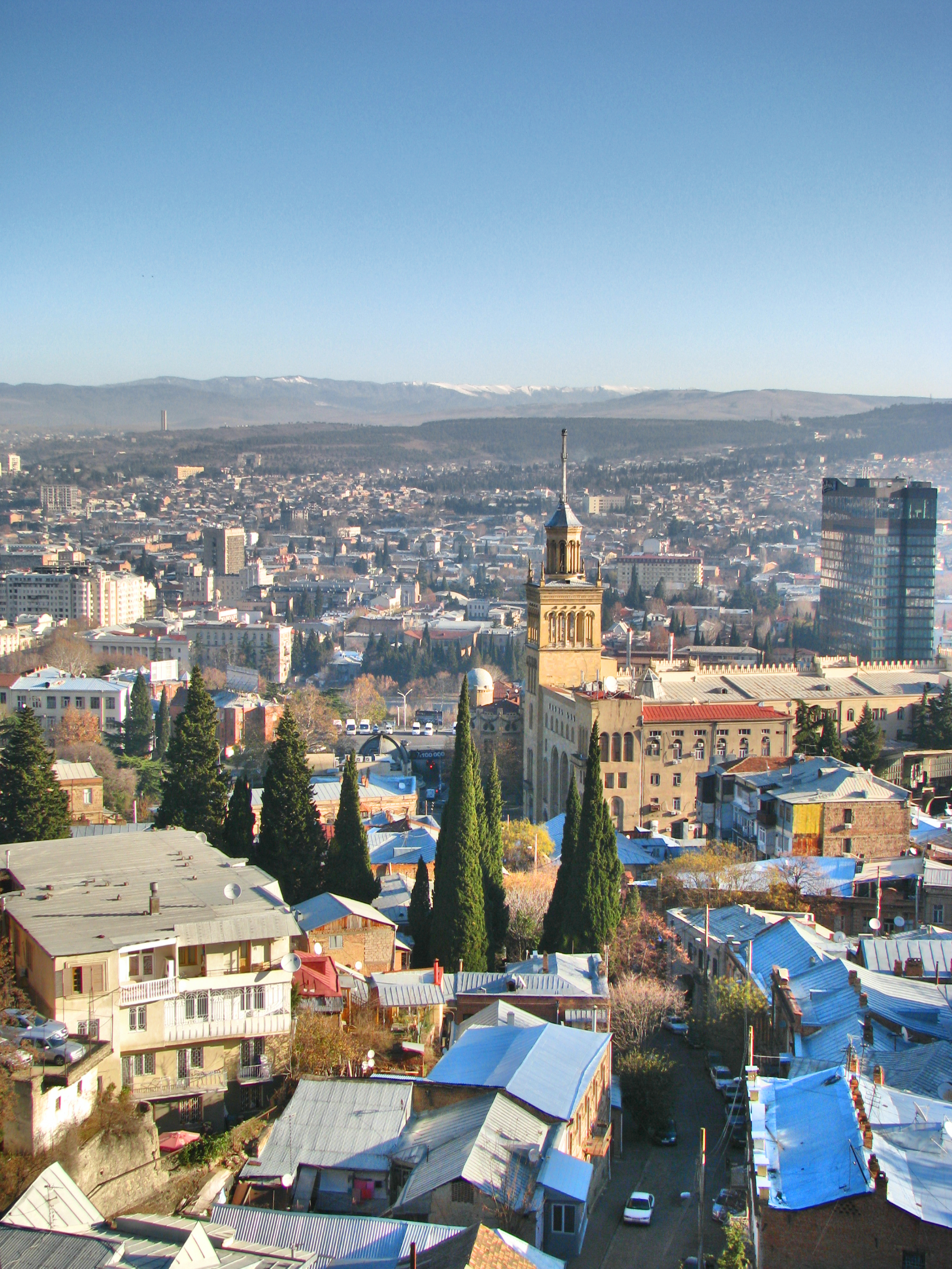 View on Tbilisi. The National Academy of Sciences and the Radisson Blu Iveria Hotel are seen in Rustaveli Avenue.